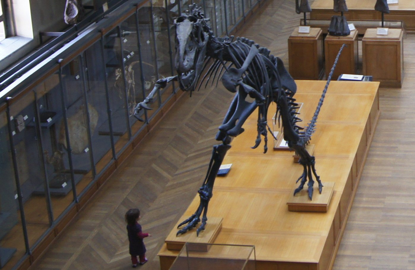 Dinosaur skeleton (Allosaurus fragilis), Museum national d'histoire naturelle, Paris.